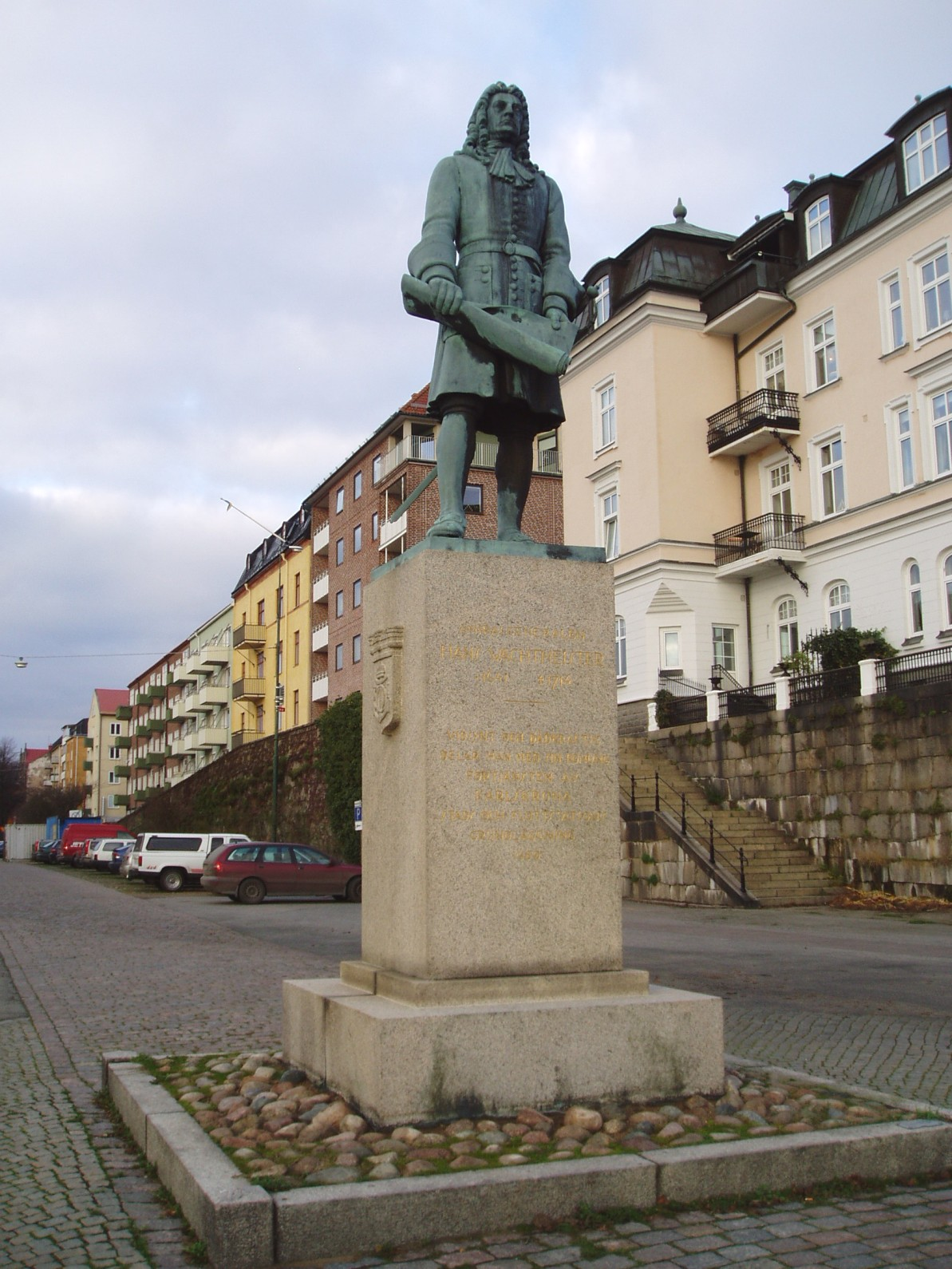 Hans Wachtmeister af Johannishus, swedish admiral, statue in Karlskrona